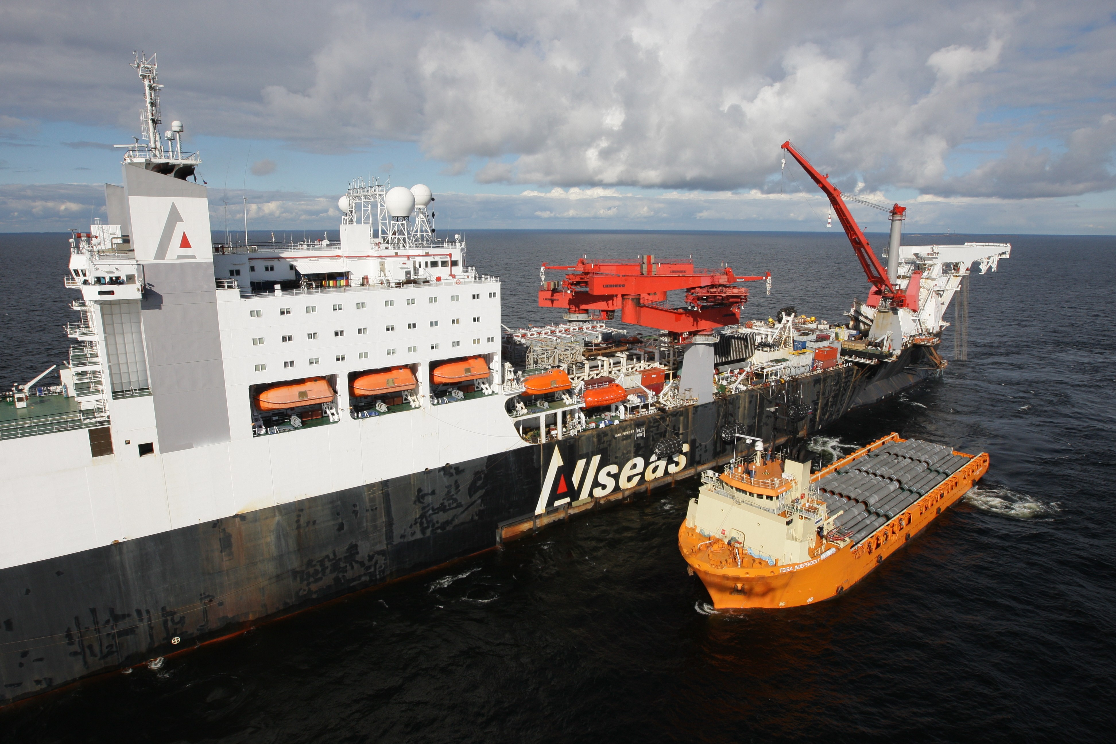 The offshore support vessel Toisa Independent (right) and the pipe-laying ship Solitaire, which installs the Nord Stream pipeline in the Gulf of Finland.